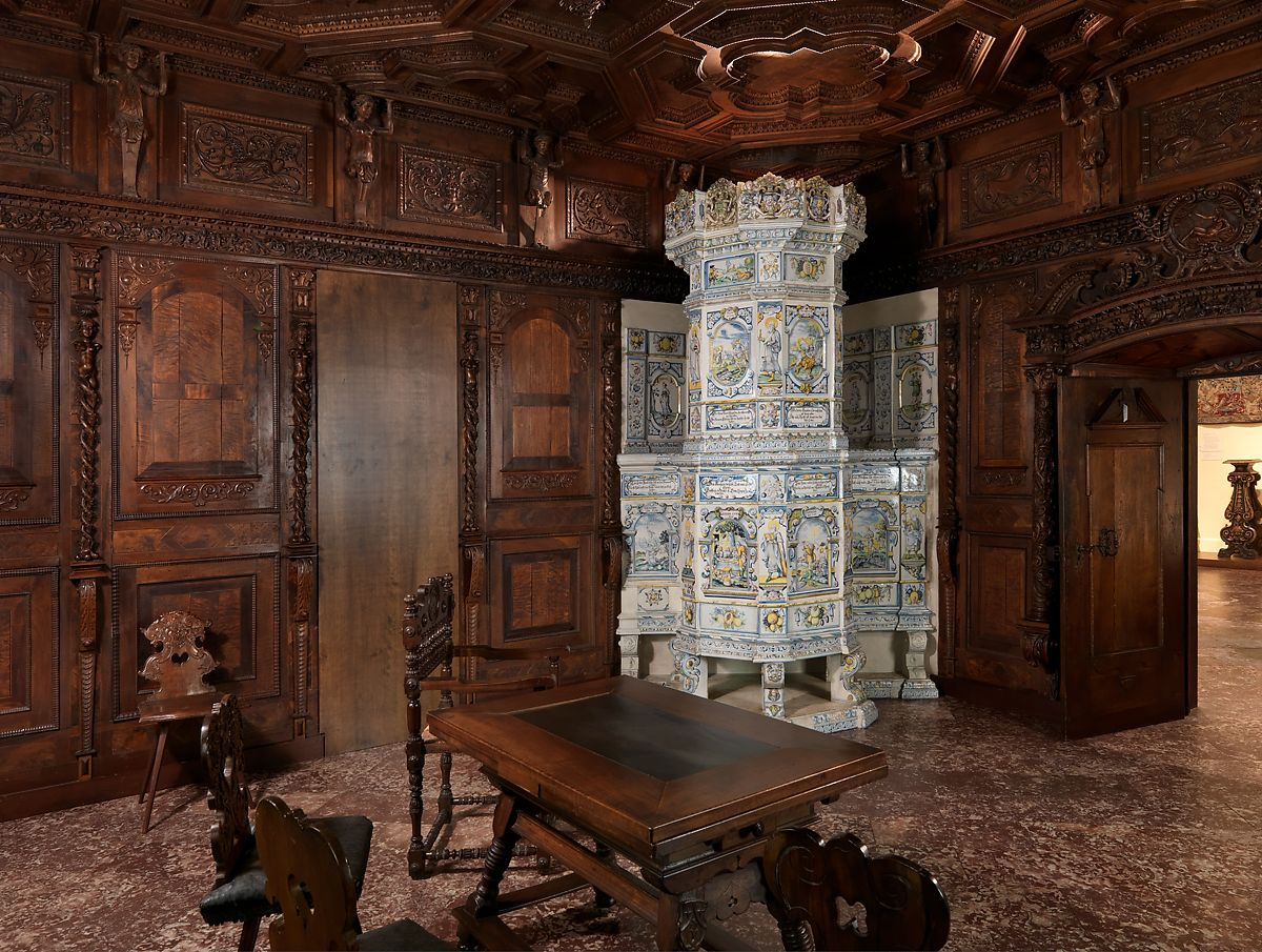 A 4509205 Old Swiss Room (Reiche Stube) from Flims: picture from the MET-Museum New York.